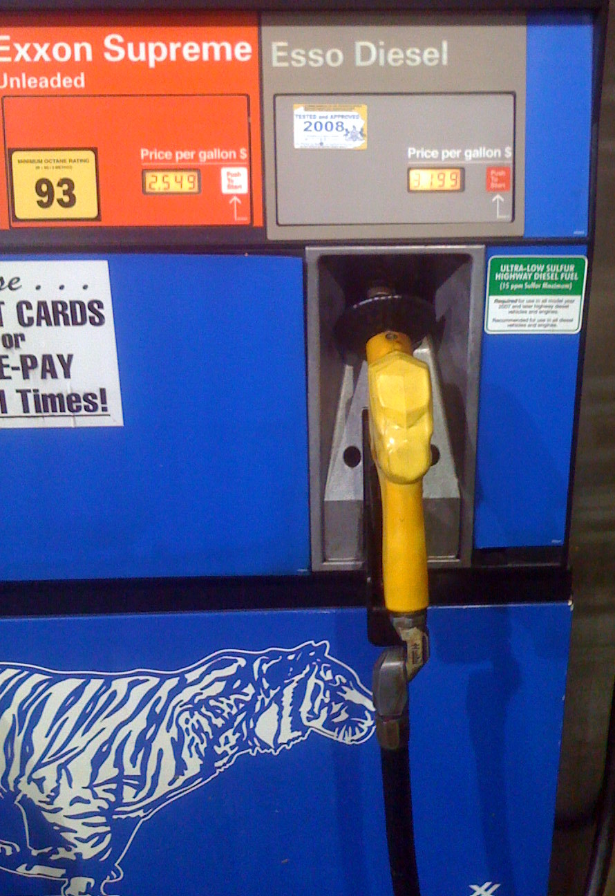 Took image myself as an example of the Esso trademark still being used in the United States at Exxon stations selling "Esso Diesel".